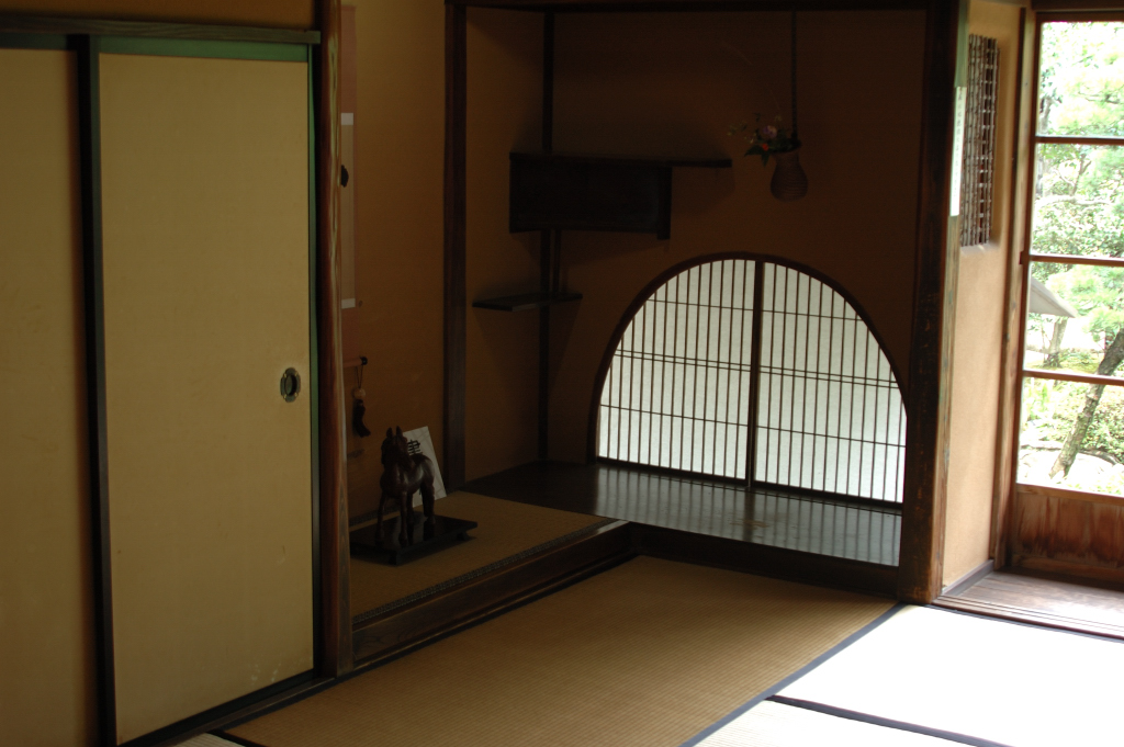 Interior of Lafcadio Hearn's former house in Matsue(designated as Japan's national historical site)